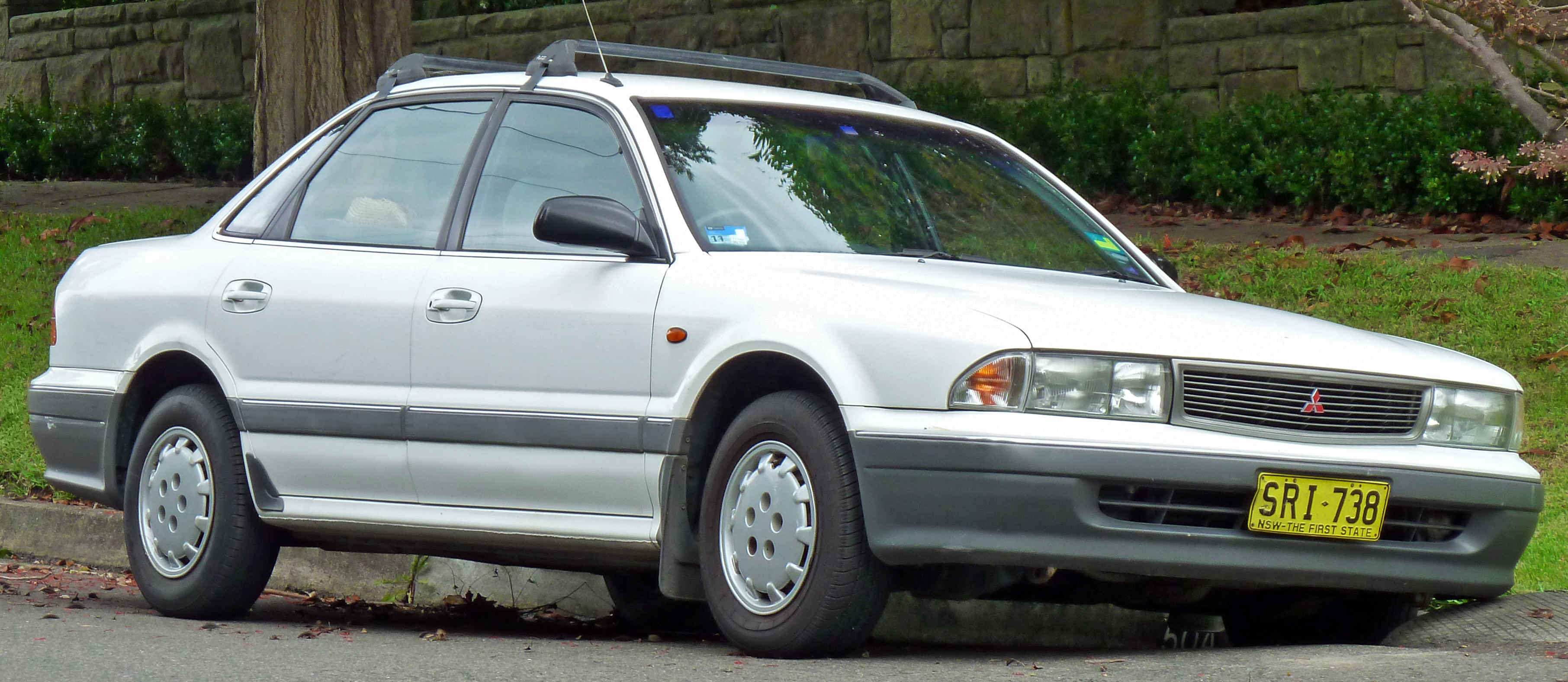 1993 Mitsubishi Magna (TR) Executive sedan. Photographed in Killara, New South Wales, Australia.